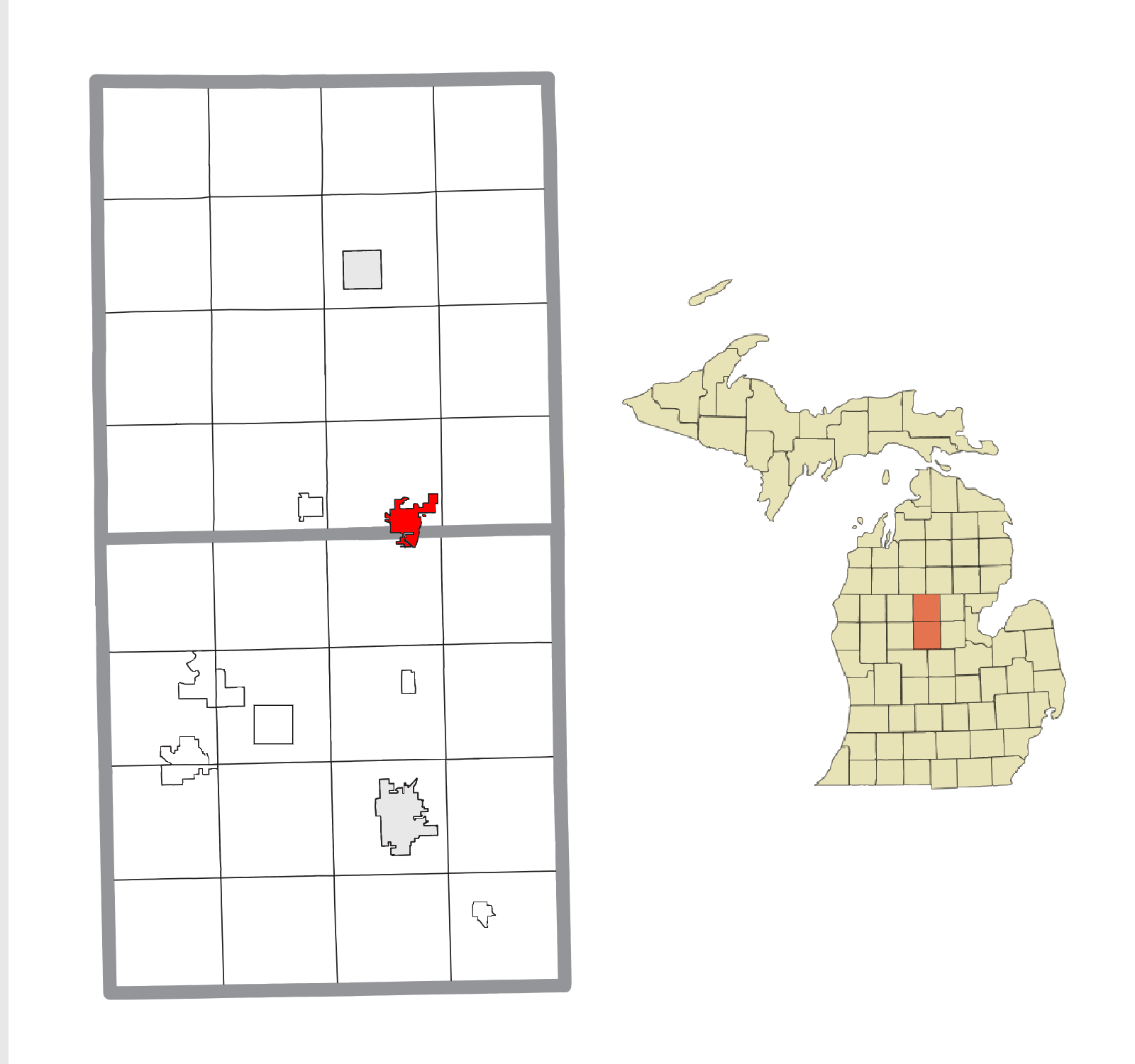 Clare, MI